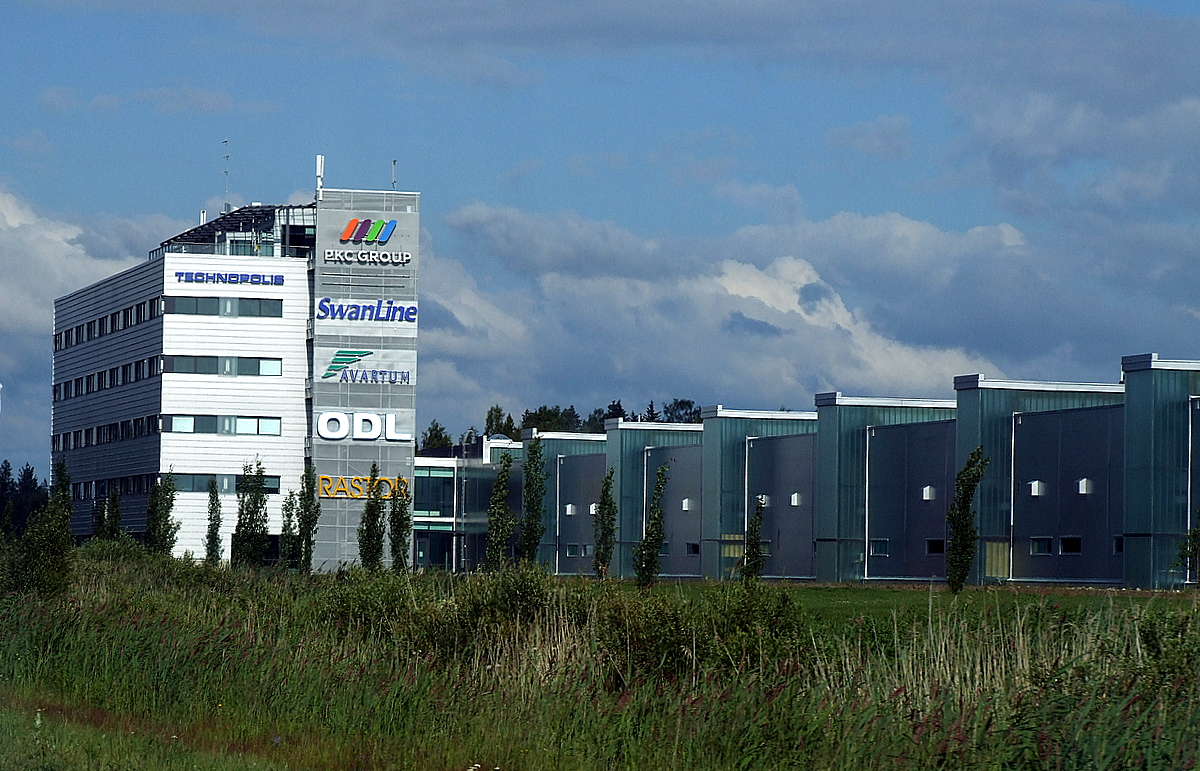 The headquarters of PKC Group Oyj (Public Ltd.) in Kempele, Finland. The building was designed by Laatio Architects Ltd